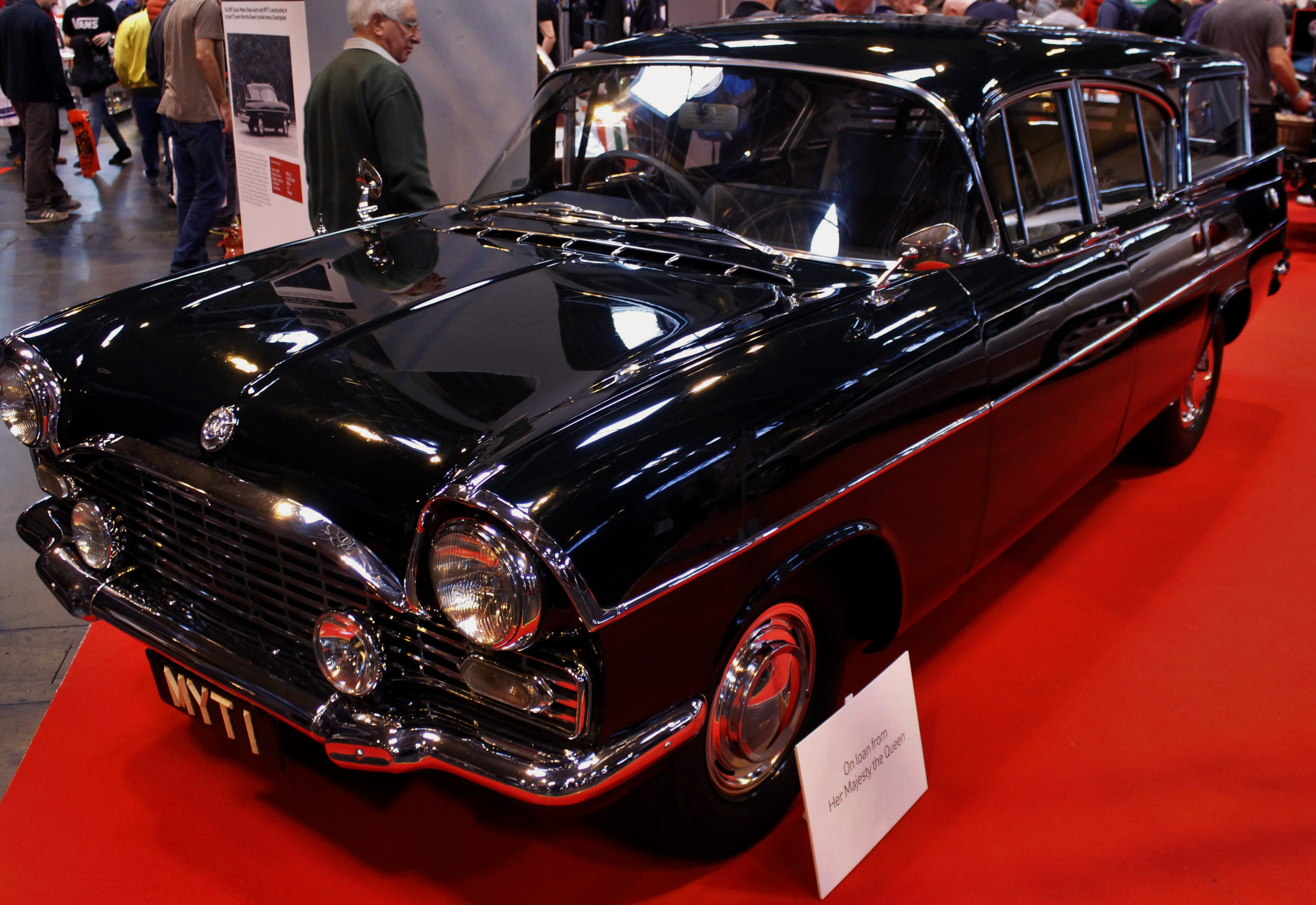 NEC Classic car show 2015